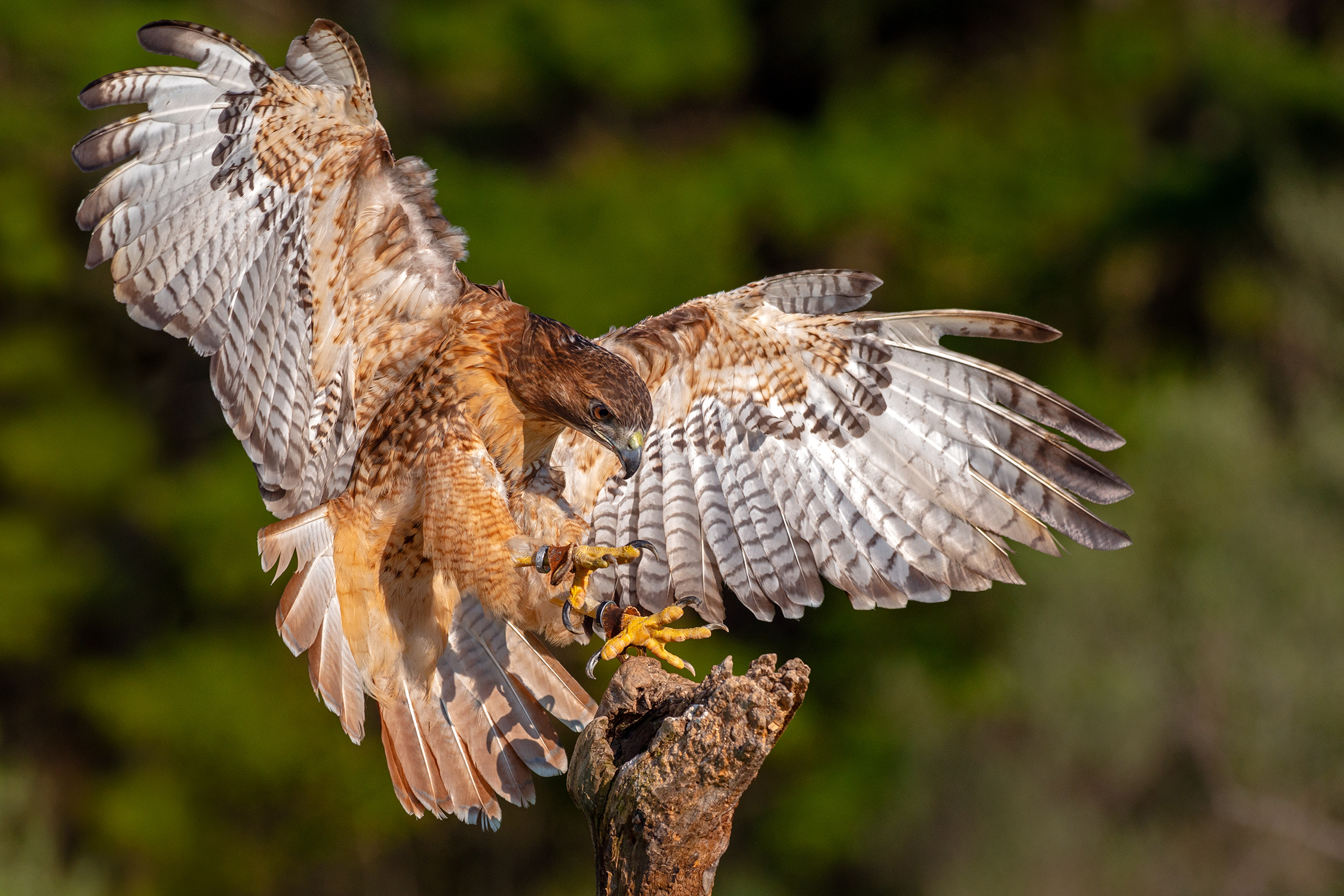 A falconer's red-tailed hawk comes in for a landing